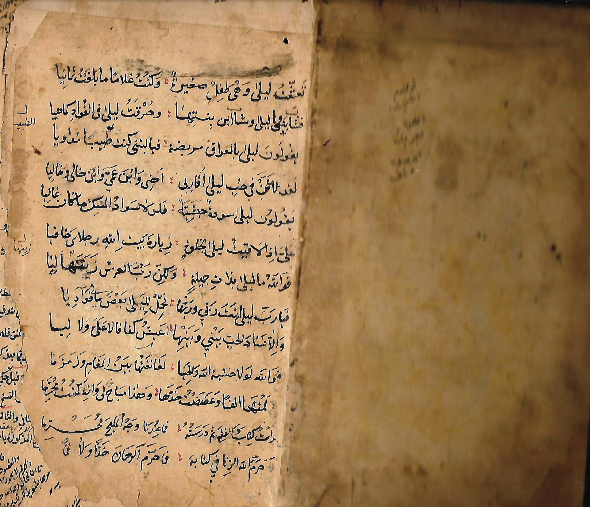 Poems written on the cover of an old manuscript of the poet Qais ibn al-Muluh famous (madman Bani Amer) or (Majnoon Leila) 645-688, and the manuscript written by the scribe before 1850, and its a part of Mullah Qasim Effendi Al-Mufti s collection